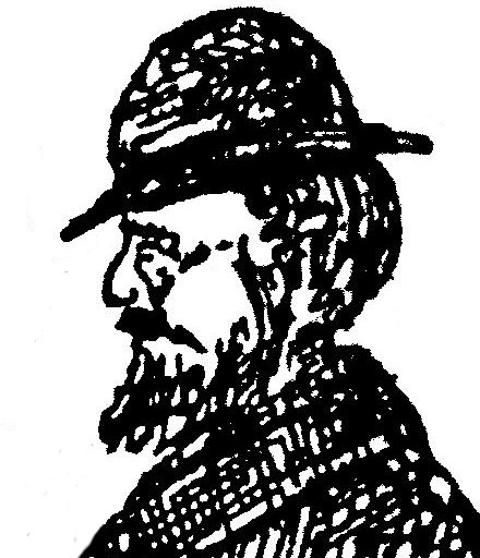 From a newspaper illustration from 1888.